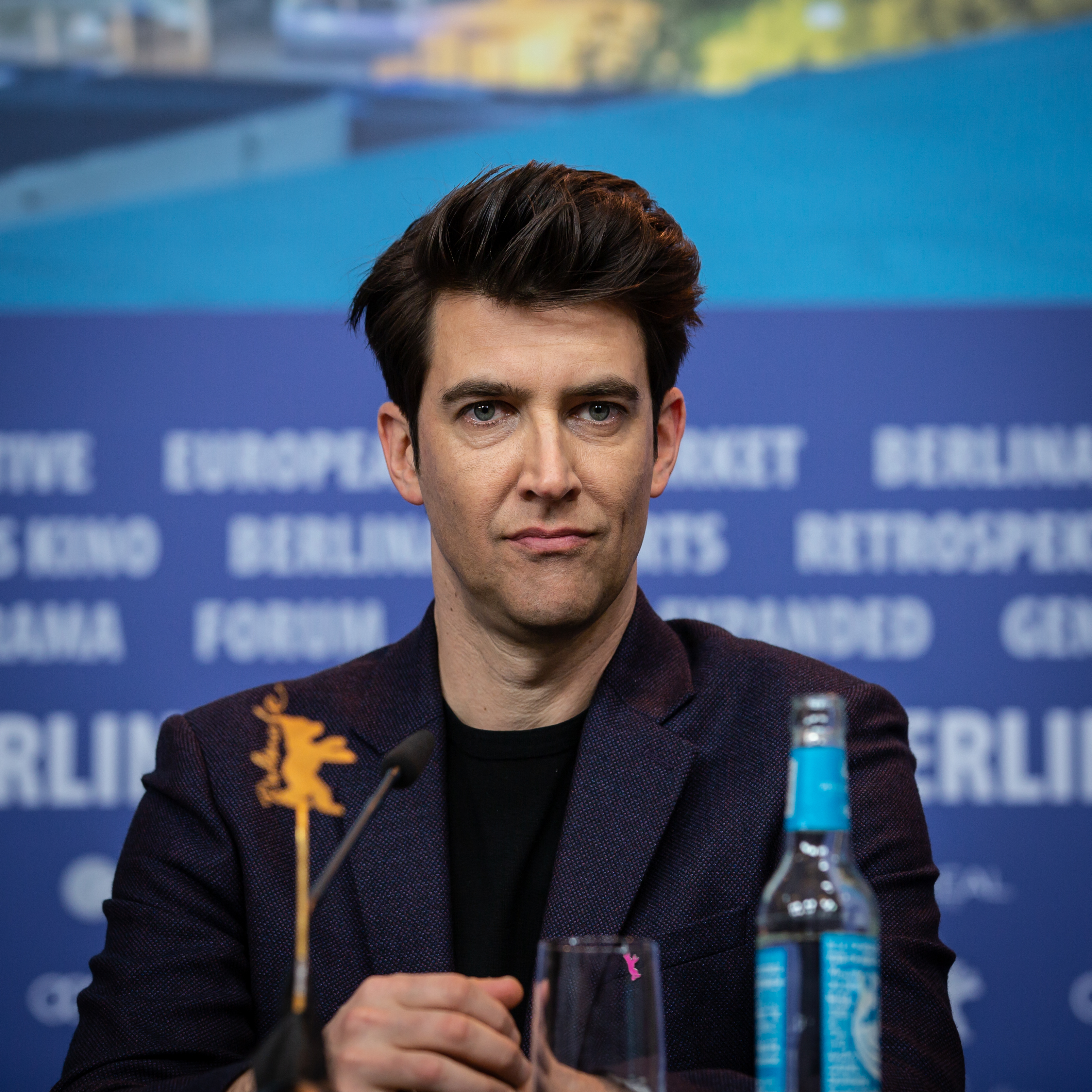 Film director Guy Nattiv at the Berlinale 2019